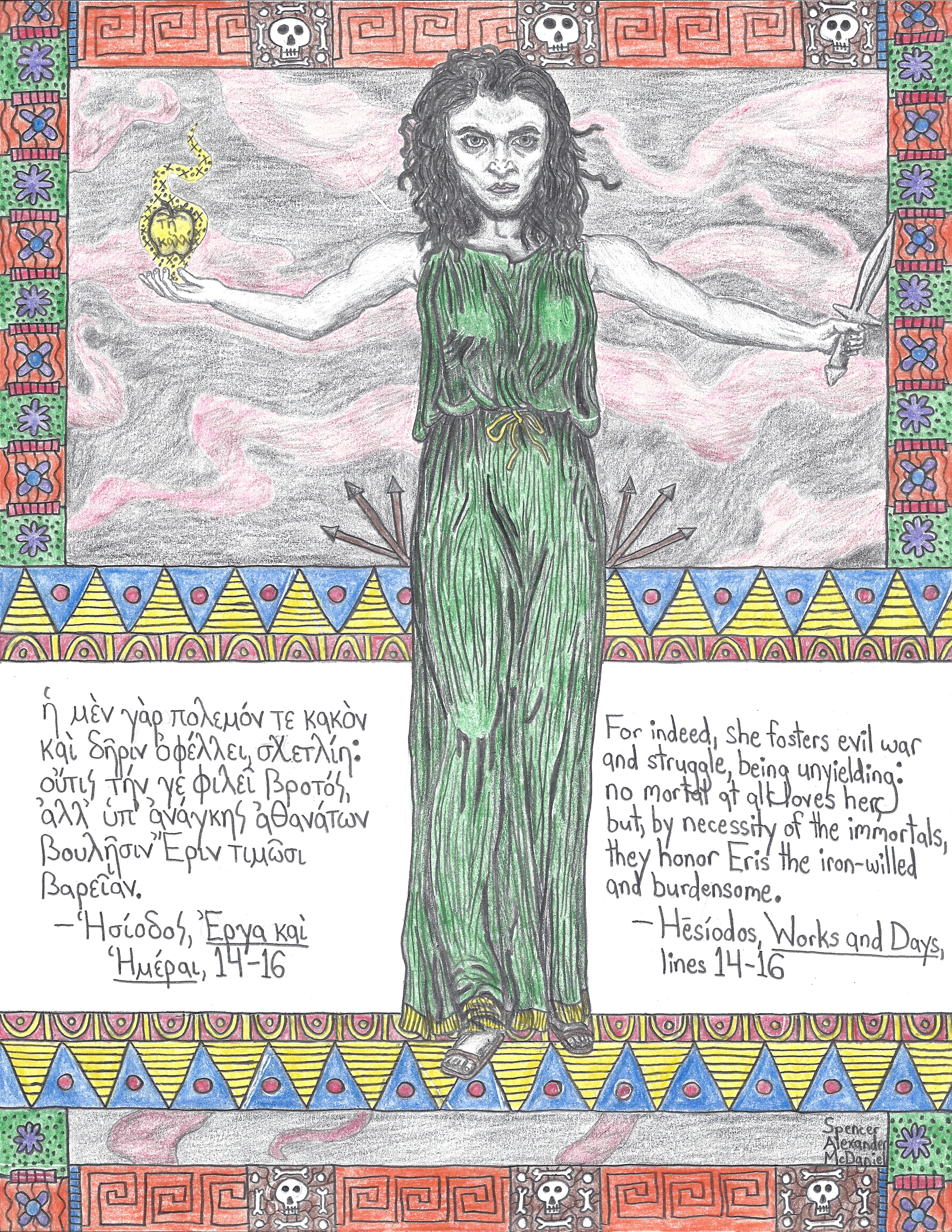 This is a pencil illustration of Eris, the Greek goddess of discord, drawn by Spencer Alexander McDaniel in June 2020. Her peplos is green, symbolizing envy, a common source of strife. In her right hand, she holds golden apple with the words "τῇ καλλίστῃ" on it. In her left hand, she holds a xiphos, a kind of ancient Greek sword. A passage from Hesiodos's Works and Days is written in Greek on her right. My own English translation of the passage is written on her left.